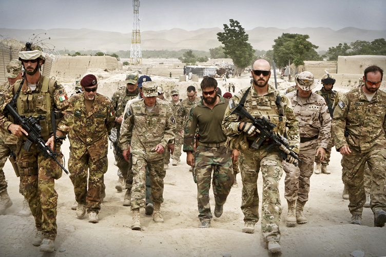 U.S. Army Gen. David H. Petraeus, commander of U.S. and international forces in Afghanistan, visits Regional Command West in Afghanistan, May 16, 2011. The command includes Badghis, Farah, Ghor and Herat provinces. International Security Assistance Force photo